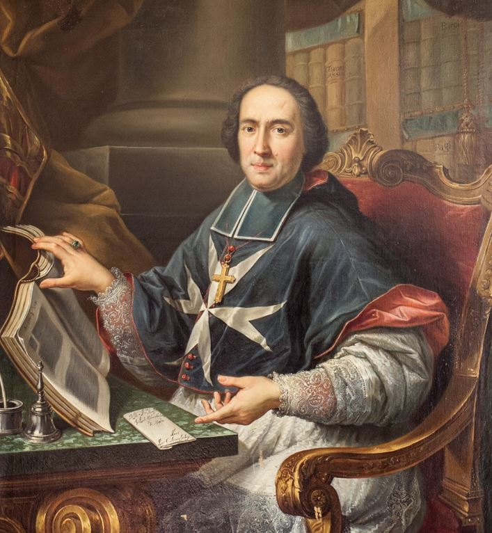 Portrait of Bishop Paul Alpheran de Bussan - 1755